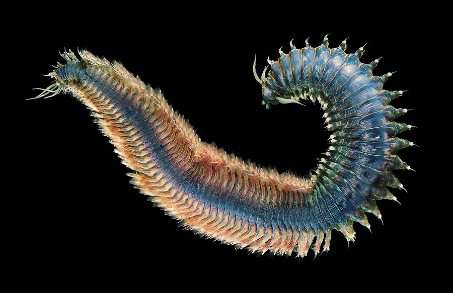 Polychaete worm Nereis pelagica